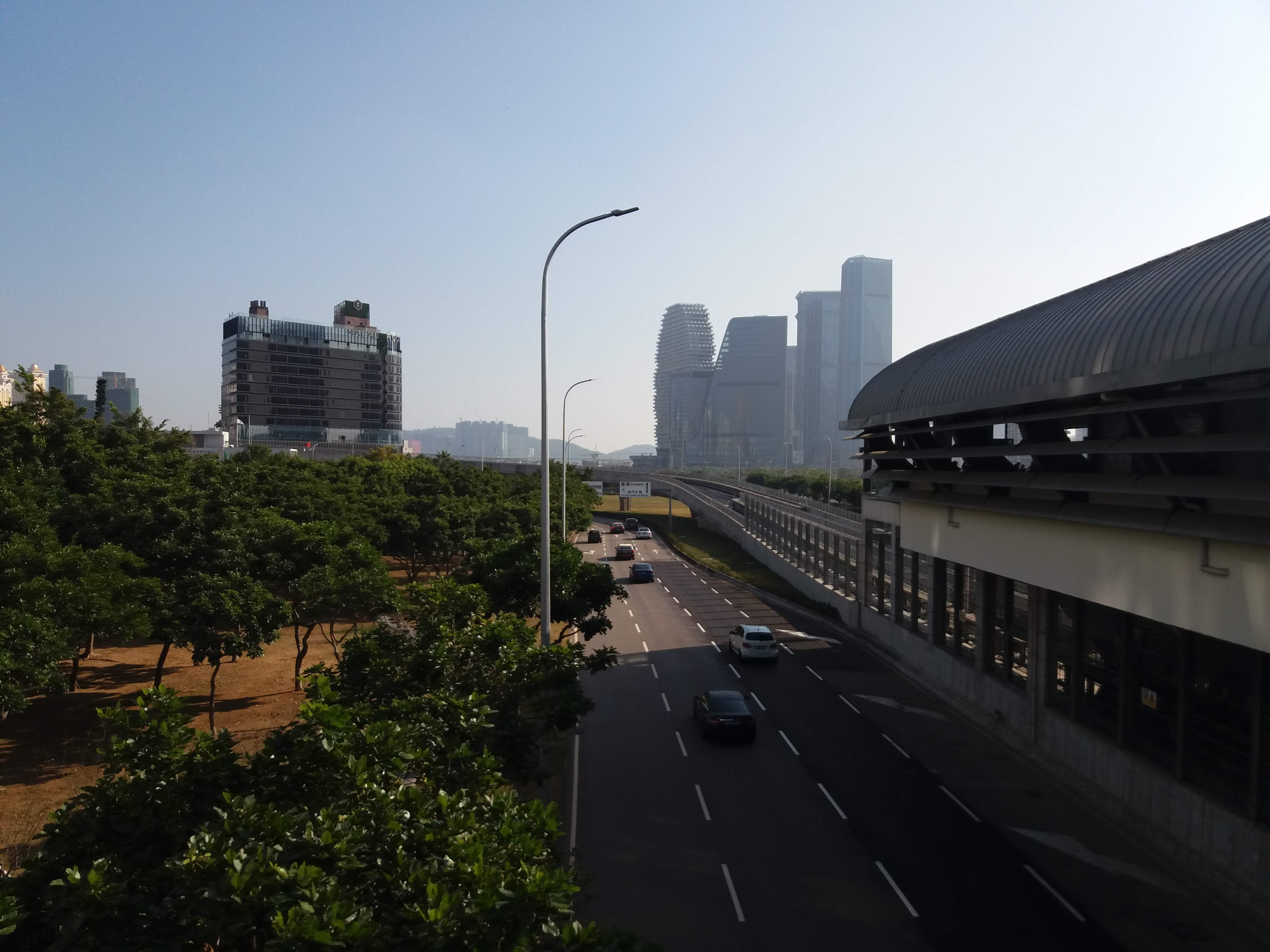 Photos taken on 24 December, 2019, during trip to Macau